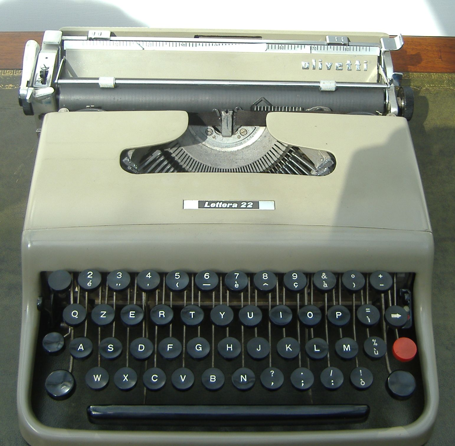 A photo of the Lettera 22